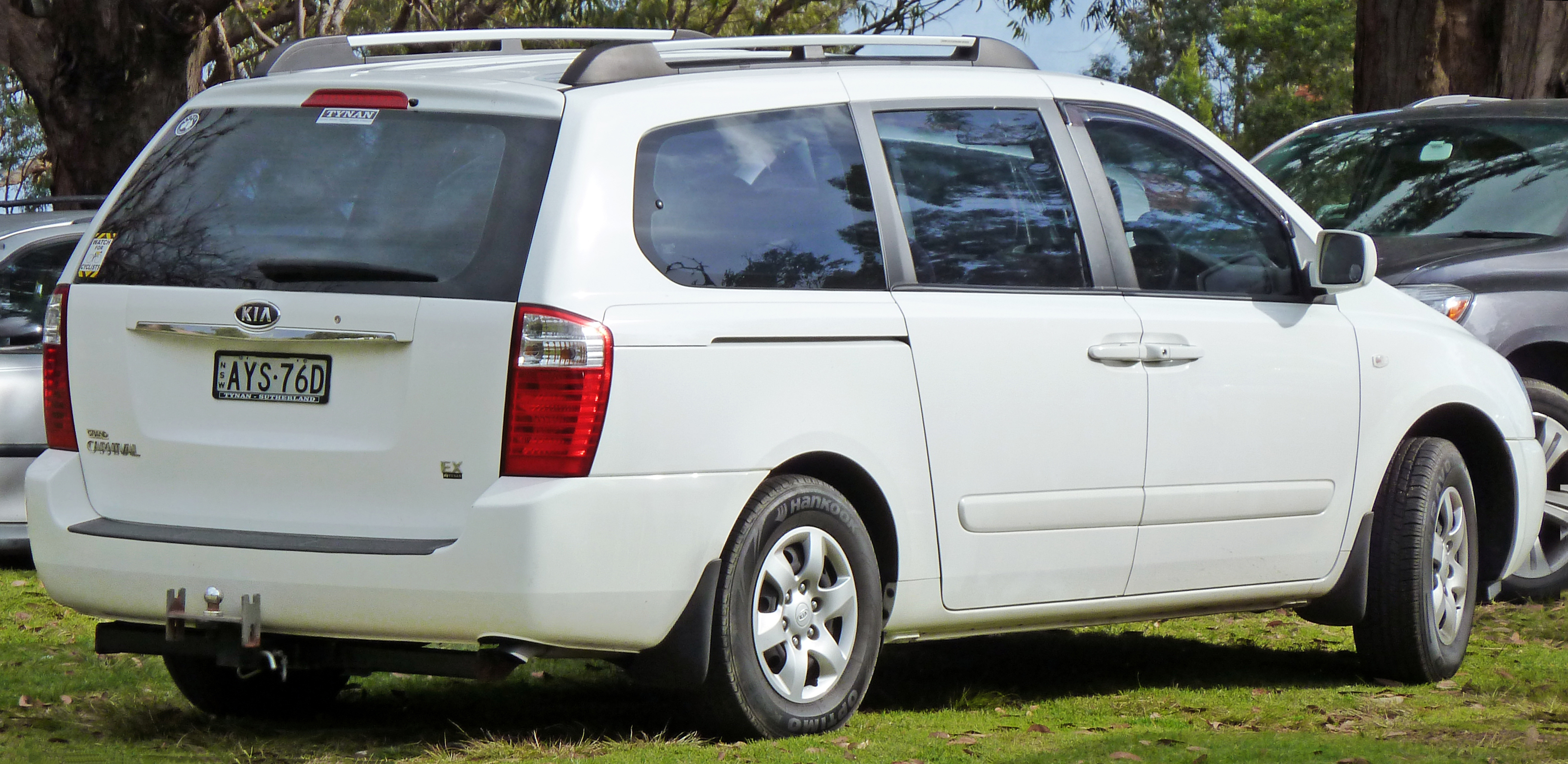 2006 Kia Grand Carnival (VQ) EX van. Photographed in Gymea, New South Wales, Australia.